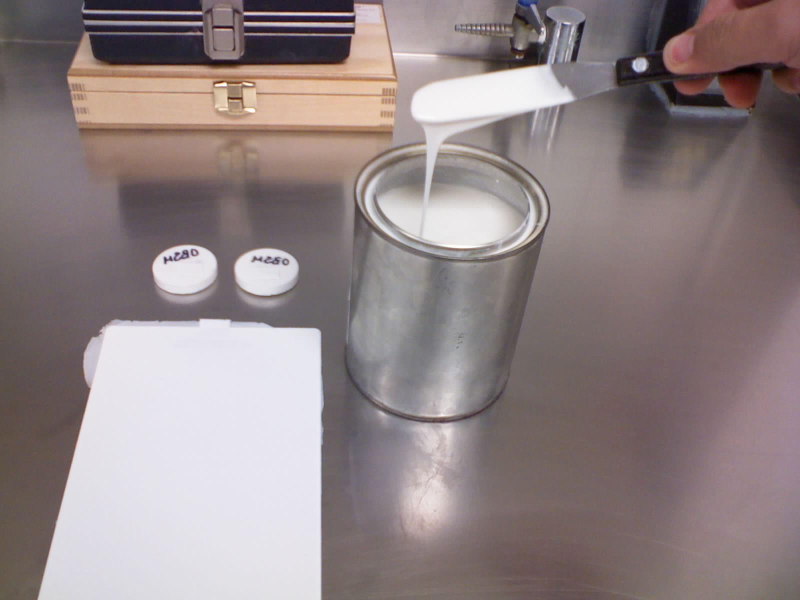 Liquid plastisol and cured